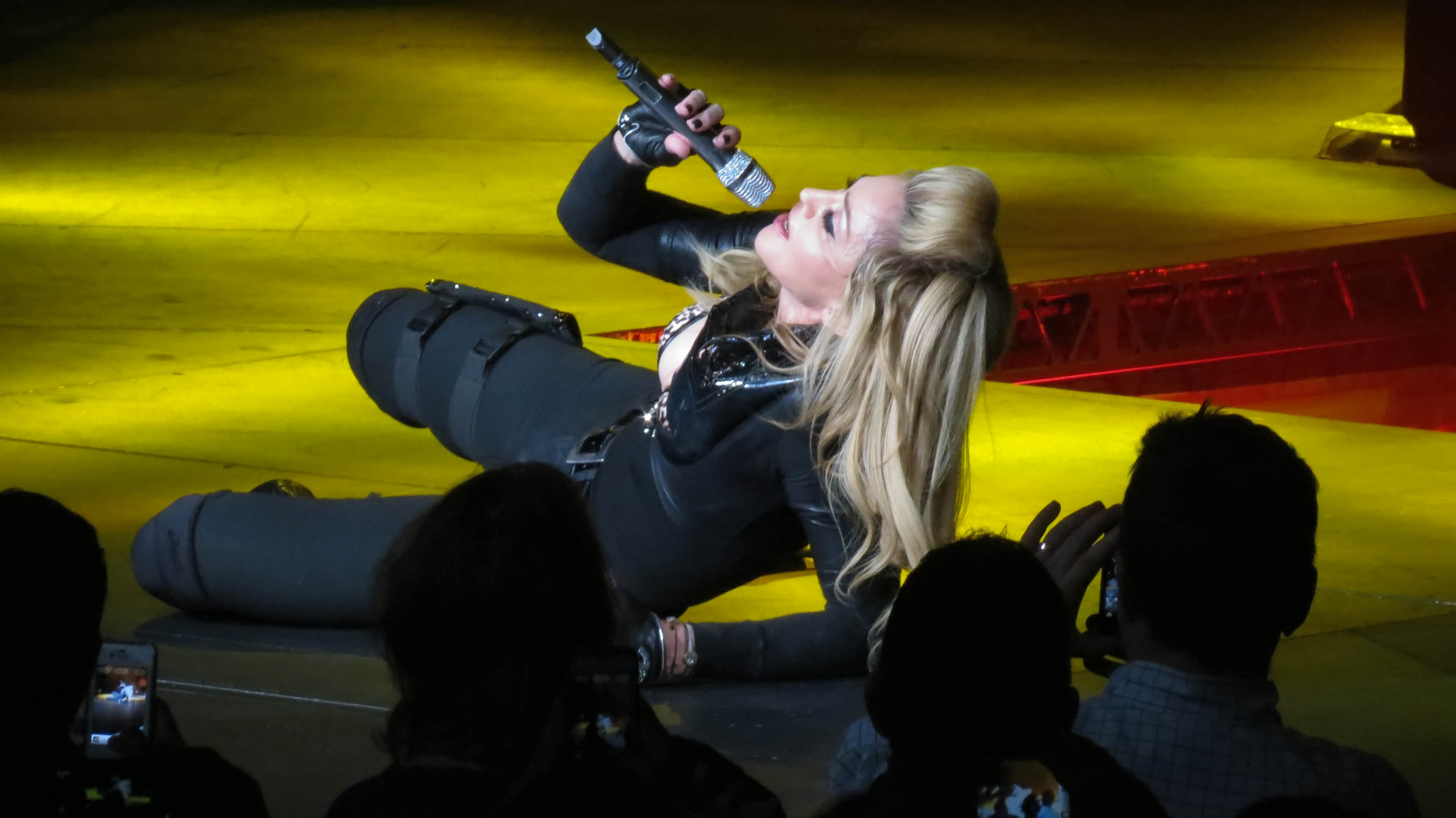 Madonna concert is Seattle